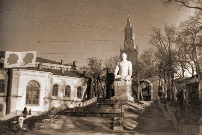 A photo of a monument to Josef Stalin in Kyiv. Demolished in 1960s